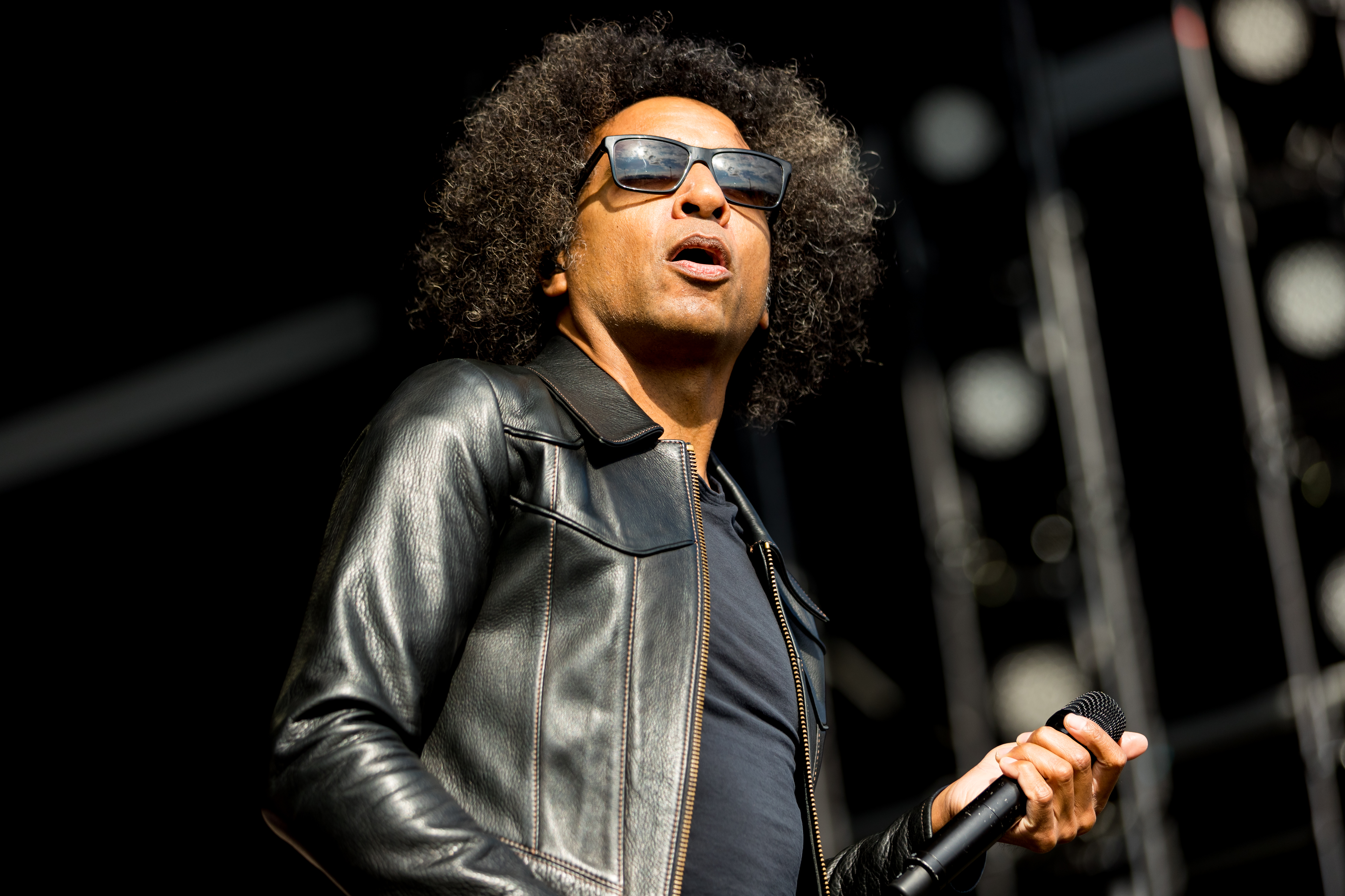 Alice in Chains during Rock am Ring ( at Nürburgring, Rheinland-Pfalz, Germany on 2019-06-07, Photo: Sven Mandel Promotion by Live Nation (